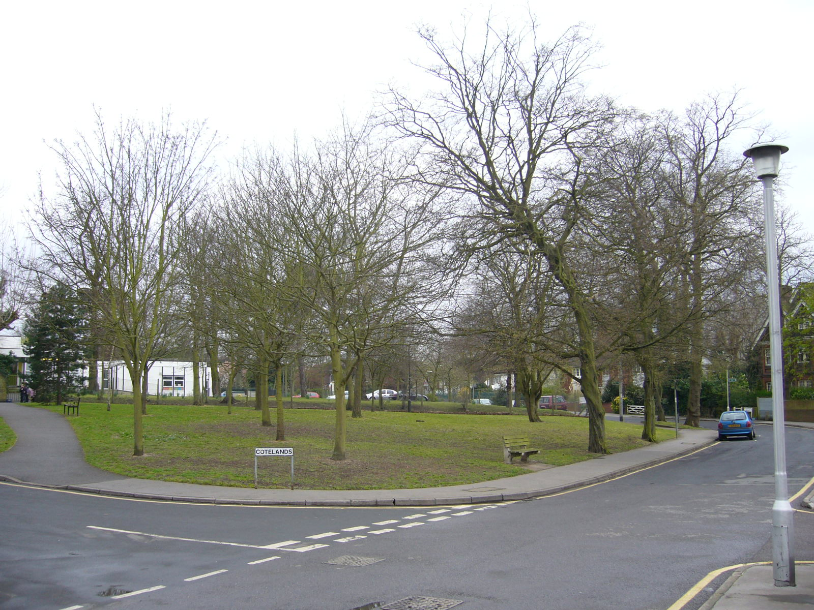 Cotelands, Croydon. This picture is not part of this open space: it is almost the whole of it! A totally undistinguished bit of roadside but someone decided to add it to an article. At least it does have its own web page! The buildings on the left are part of Park Hill Junior School. The road called Cotelands goes off to the left. The photographer is standing on a short road called The Avenue. Stanhope Road curves away on the right of the picture.